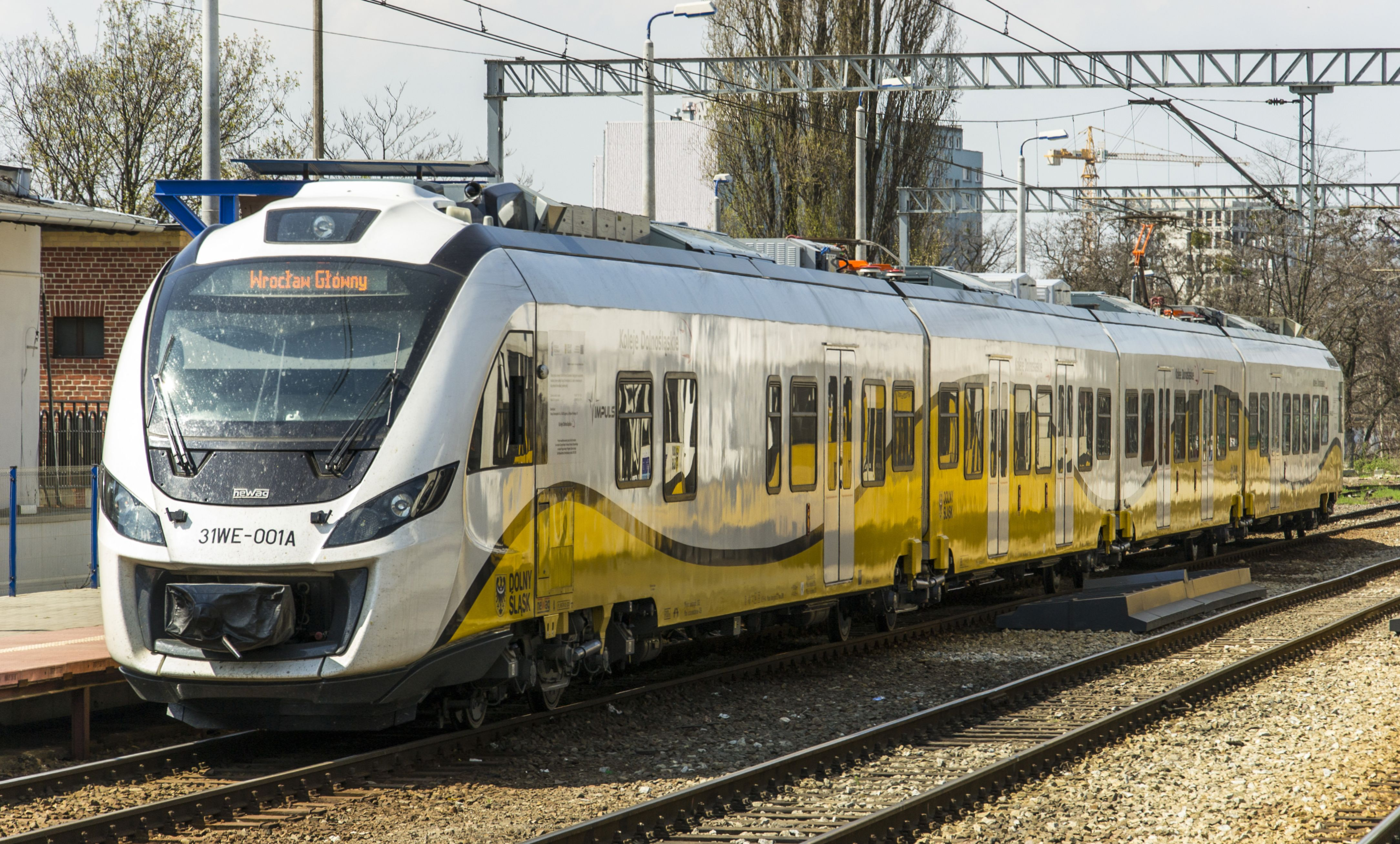 Koleje Dolnośląskie (Lower Silesian Railways) 31WE-001 at Wrocław Główny station.